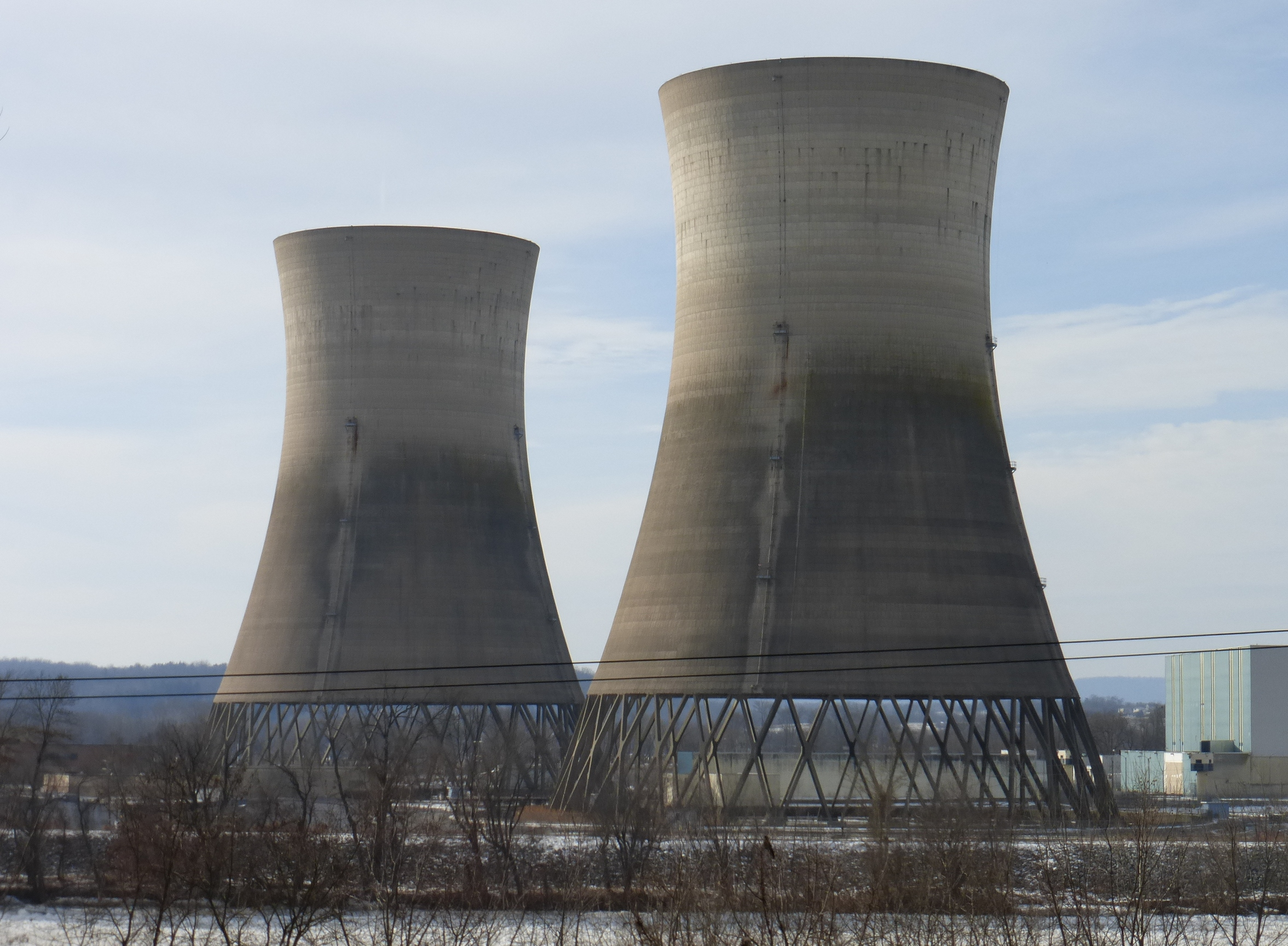 Cooling towers of Three Mile Island Unit 2 as of February 2014.